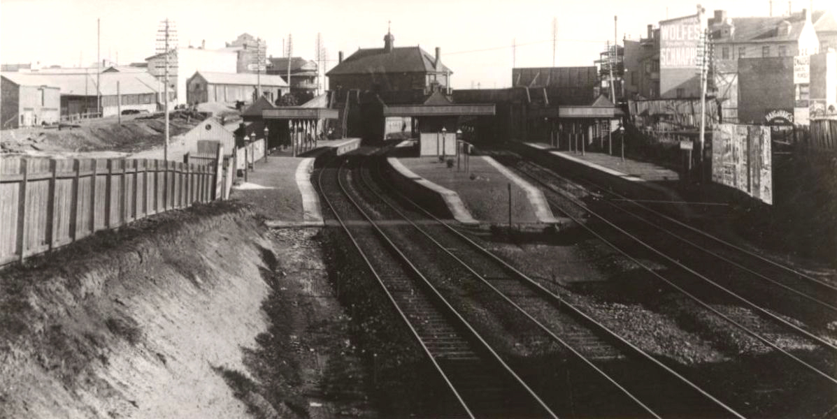 Newtown railway station c.1895.